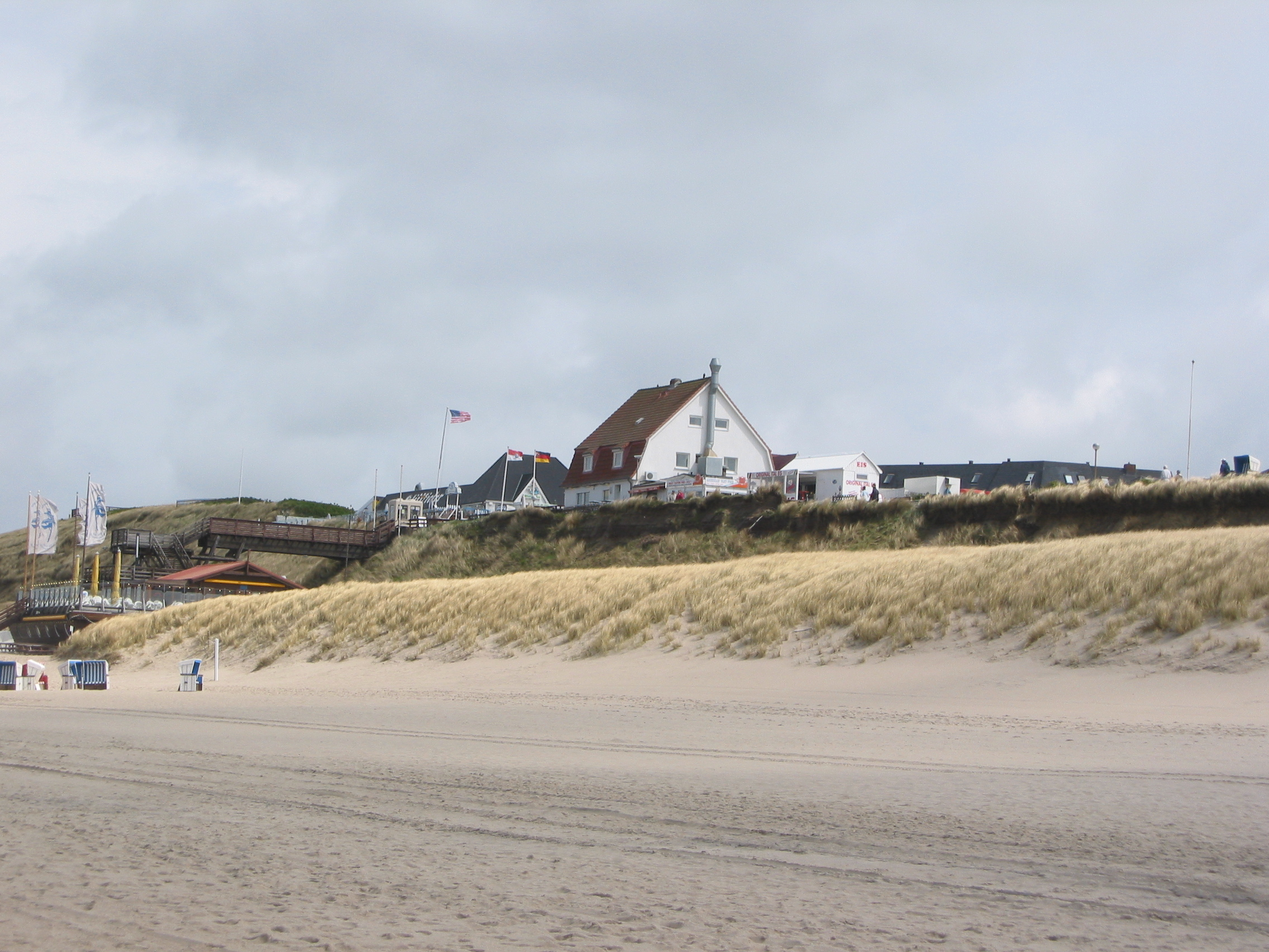 Wenningstedt, Sylt, Germany, May 2003. Seen from the beach.